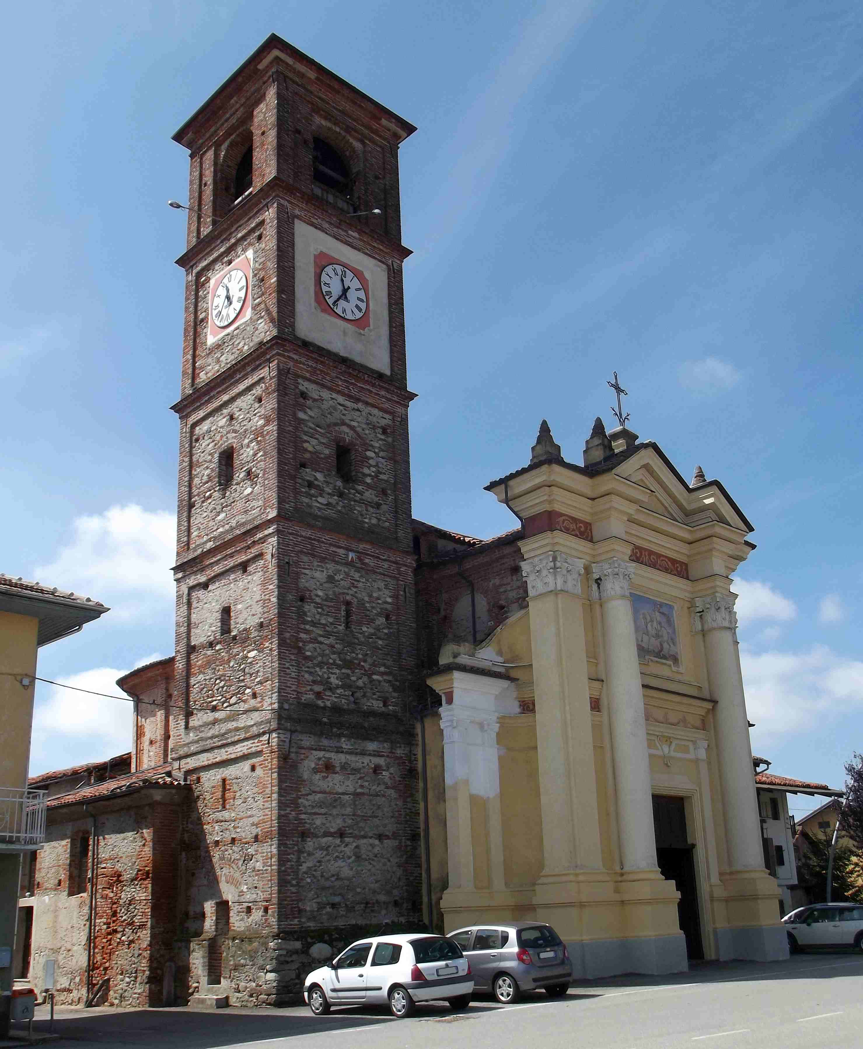 Lusigliè (TO, Italy): parish church of San Giorgio